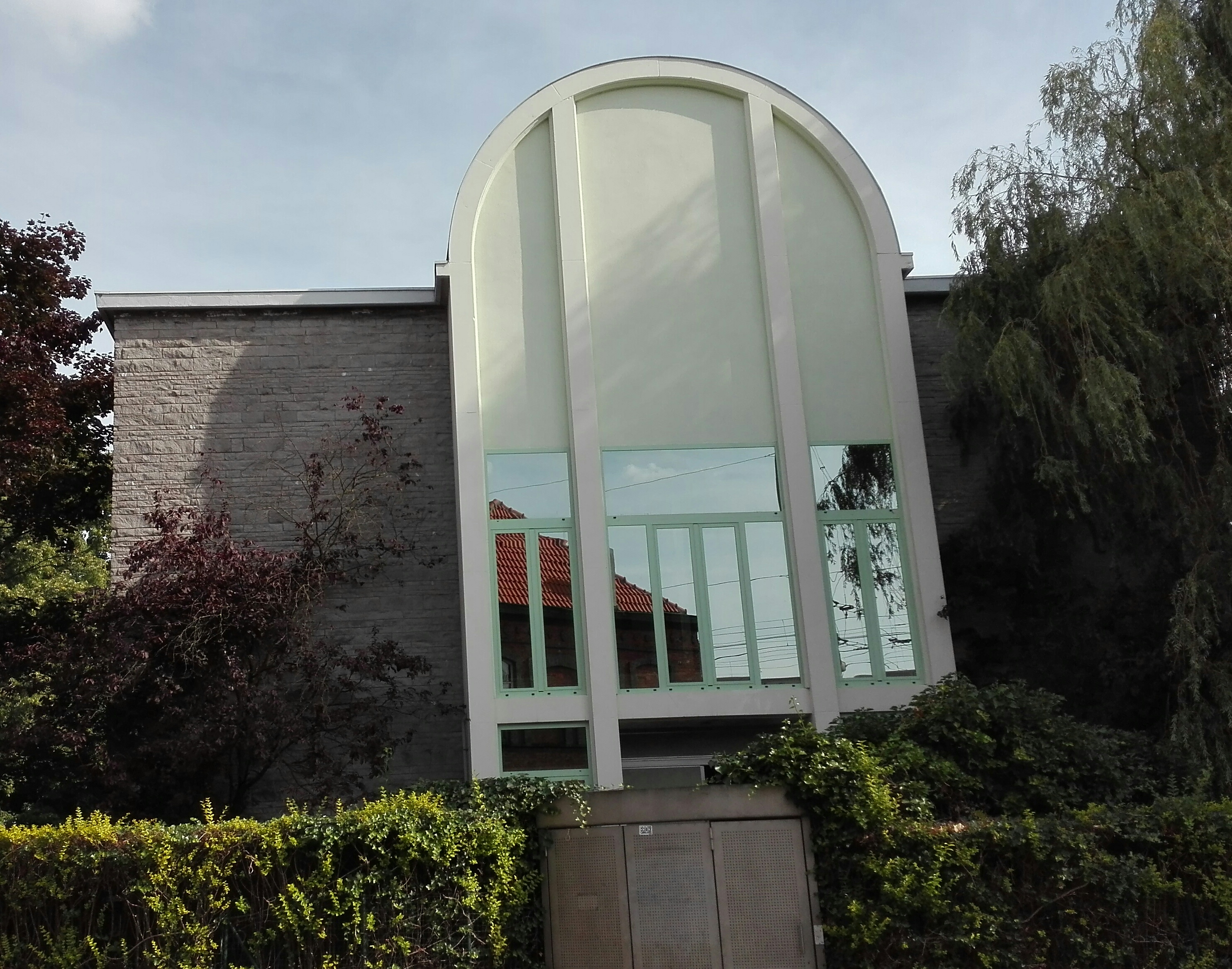 Synagoge Paviljoenstraat Schaarbeek verkocht en verbouwd